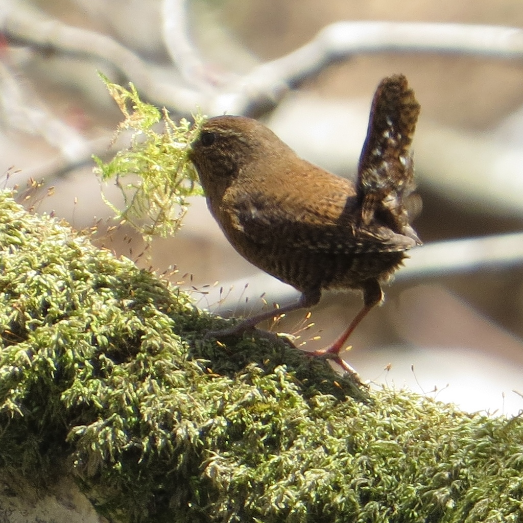 Winter wren (Troglodytes troglodytes fumigatus) in Mount Oike, Suzuka Mountains, Higashiomi, Shiga, Japan.